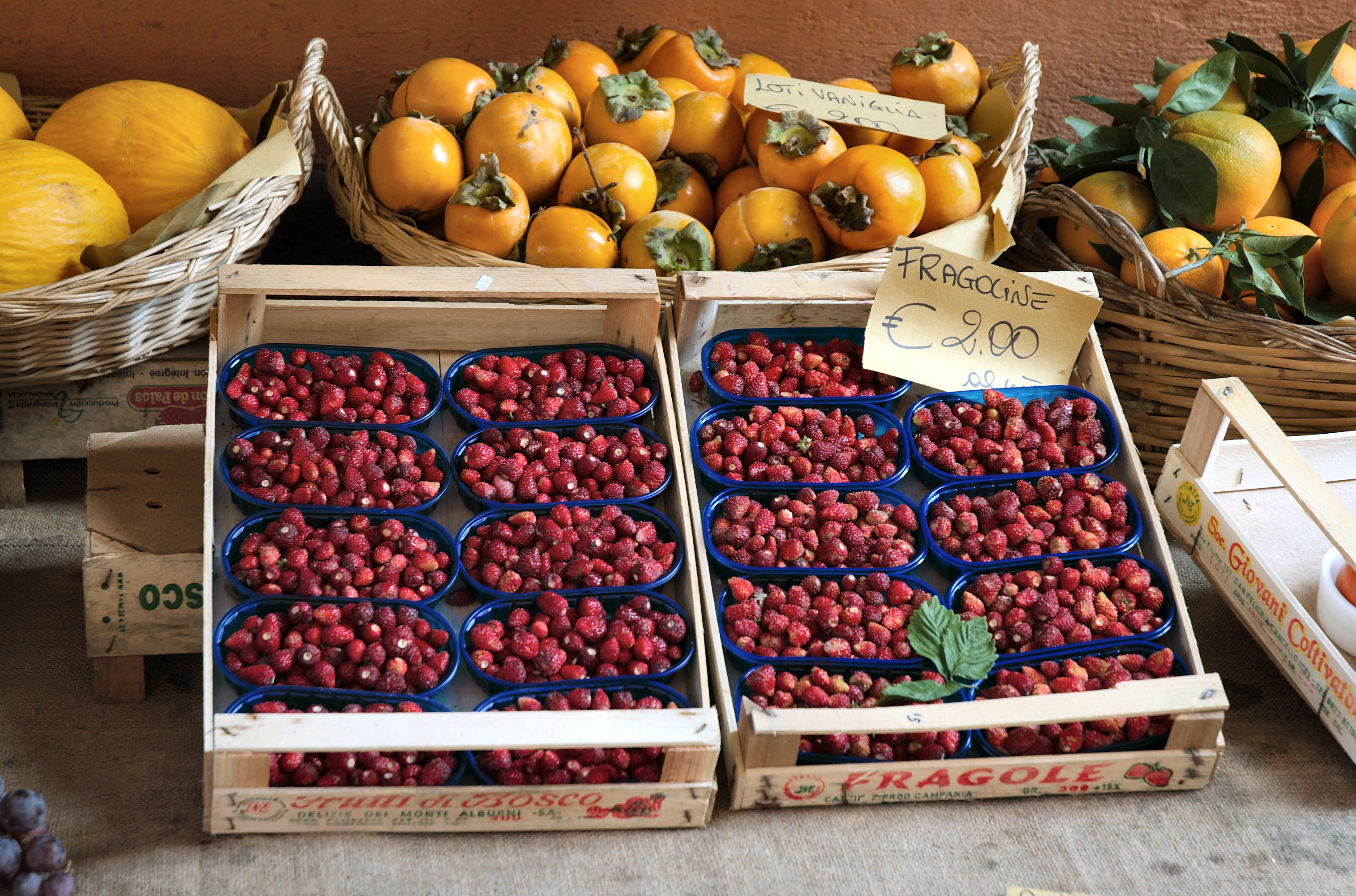 small strawberries, or fragolini, being sold in Nemi